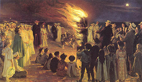 The painting includes many of the Skagen Painters: Krøyer's daughter Vibeke, mayor Otto Schwartz and his wife Alba Schwartz, Michael Ancher, Degn Brøndum, Anna Ancher, Holger Drachmann and his 3rd wife Soffi, the Swedish composer Hugo Alfvén and Marie Krøyer.